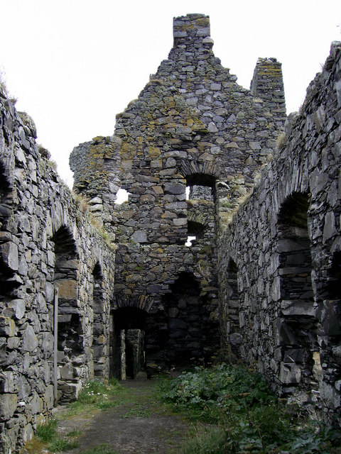 Baronial Halls The inner workings of Dunskey Castle. Some irritating busybody git of a health-and-safety freak has put fencing up to stop you getting in; but as usual these health-and-safety freaks are not very imaginative and it is extremely easy to circumvent.